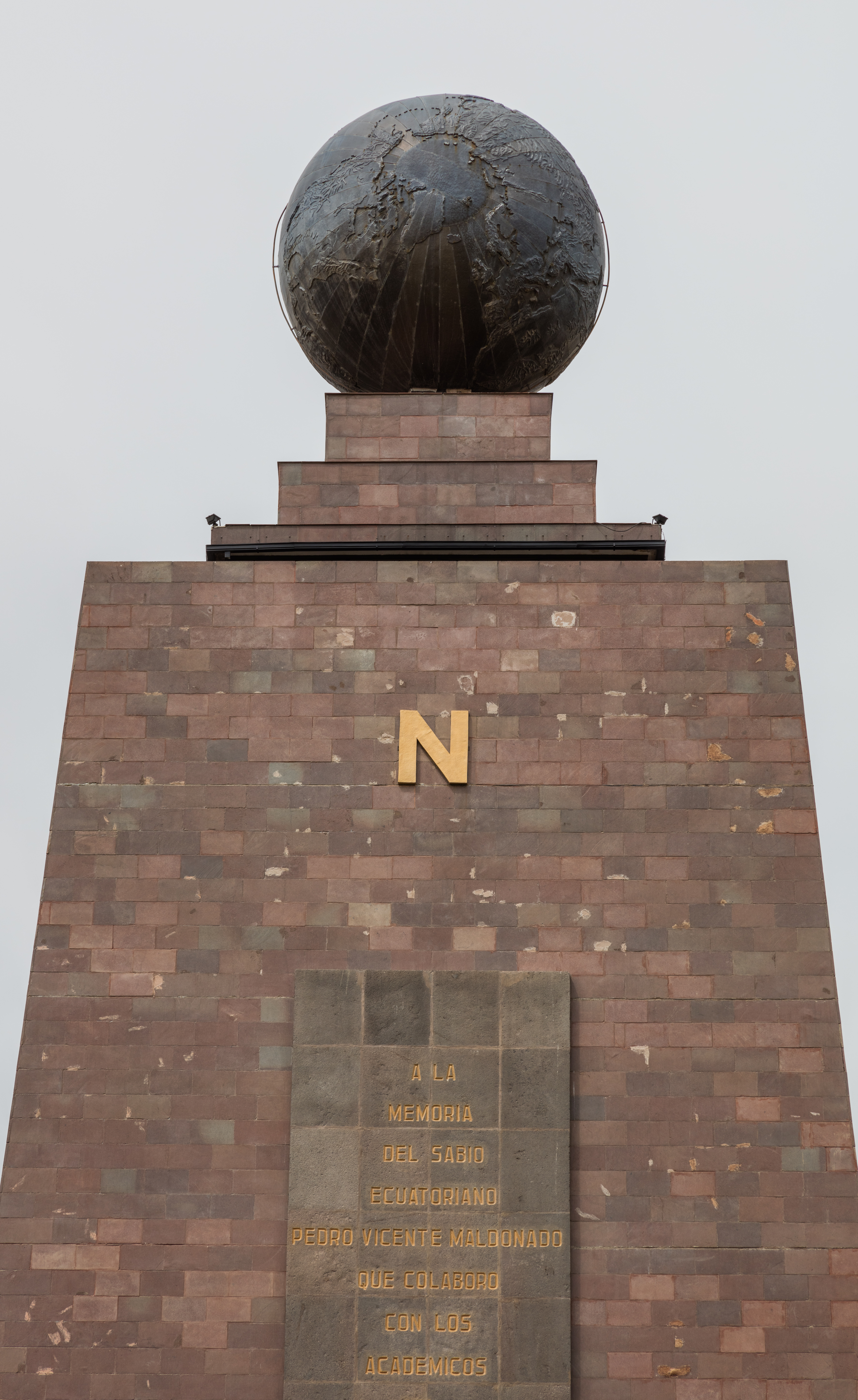 Mitad del Mundo, Quito, Ecuador